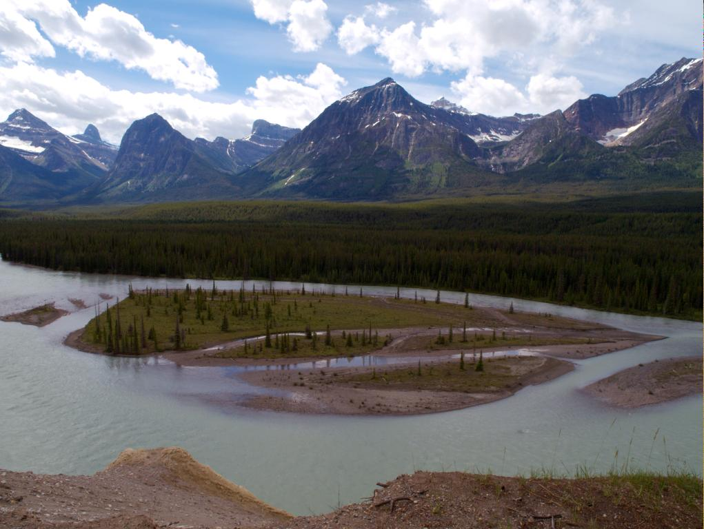 Athabasca River, Icefields Parkway